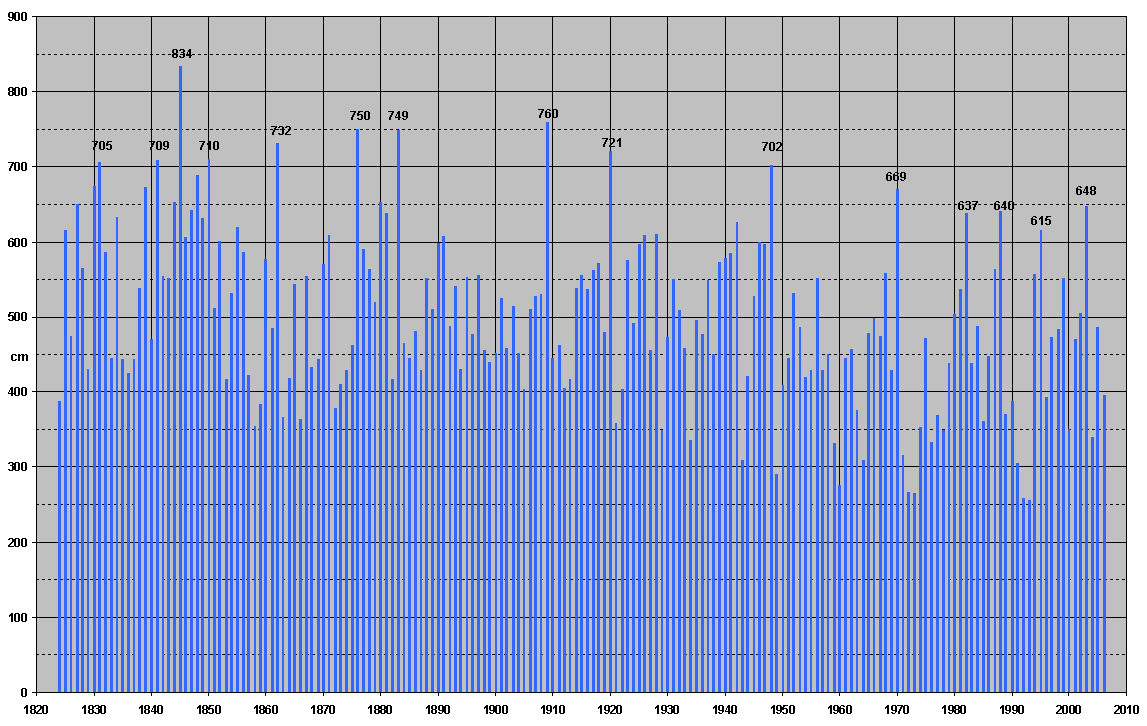 Pegel Würzburg, highest stand in a year